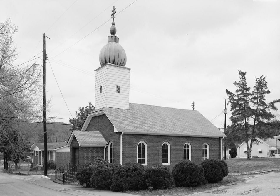 St. Nicholas Russian Orthodox Church, Birmingham Industrial District, Church Street at Park Avenue, Brookside, Jefferson County, Alabama. Exterior View, Looking Northeast Along Church Street with front and side elevations.